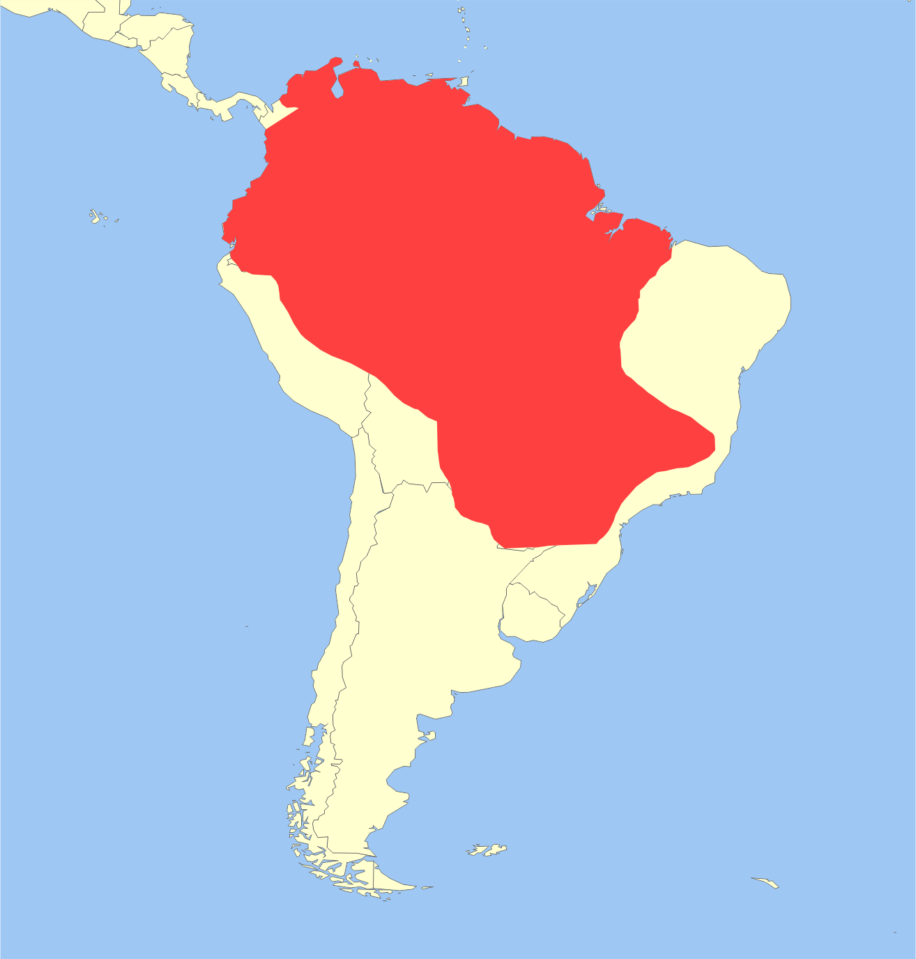 Geographic Distribution of Red Brocket (Mazama americana).